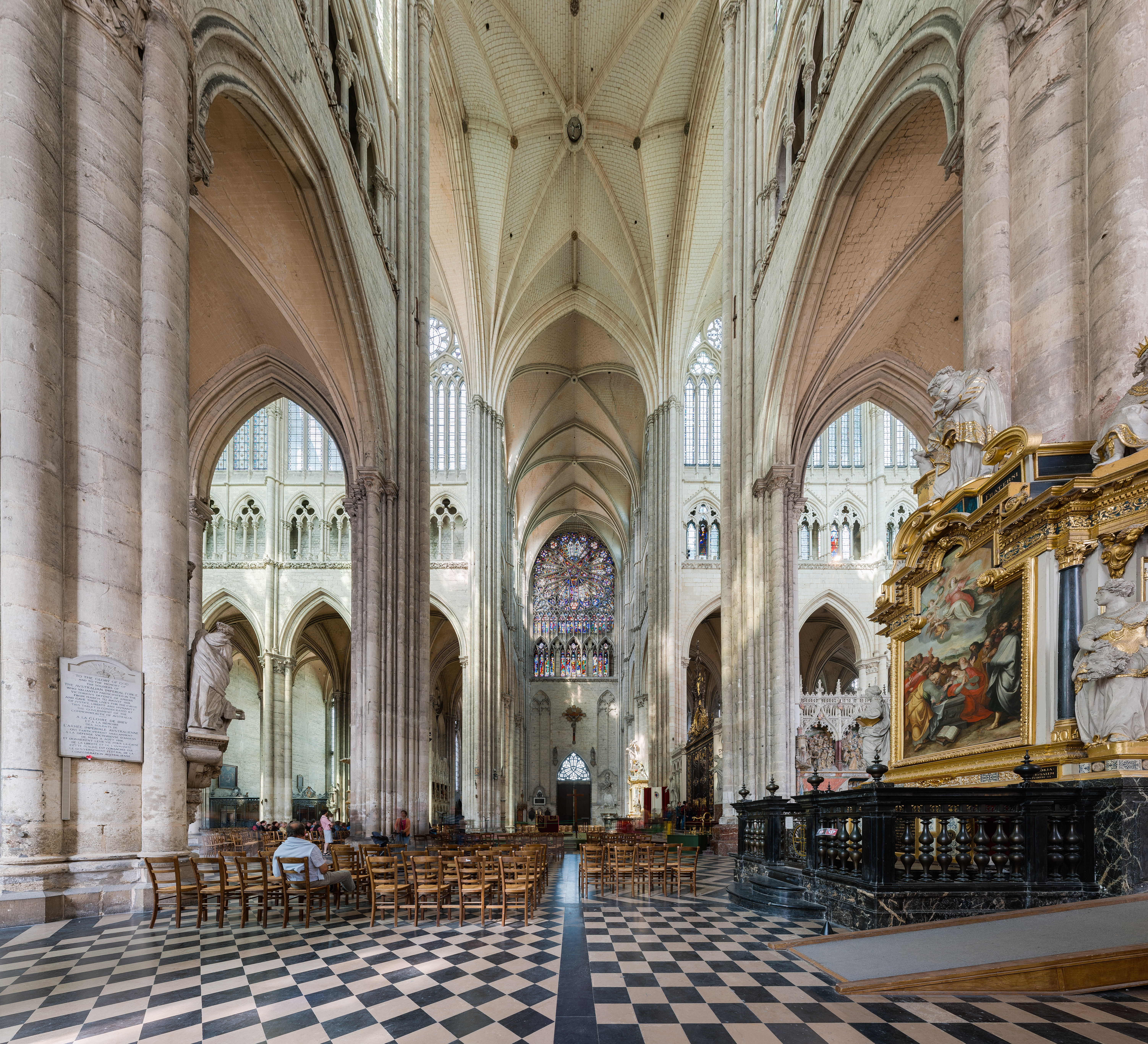 Transept and north stained glass of the Amiens cathedral, Picardie, France.